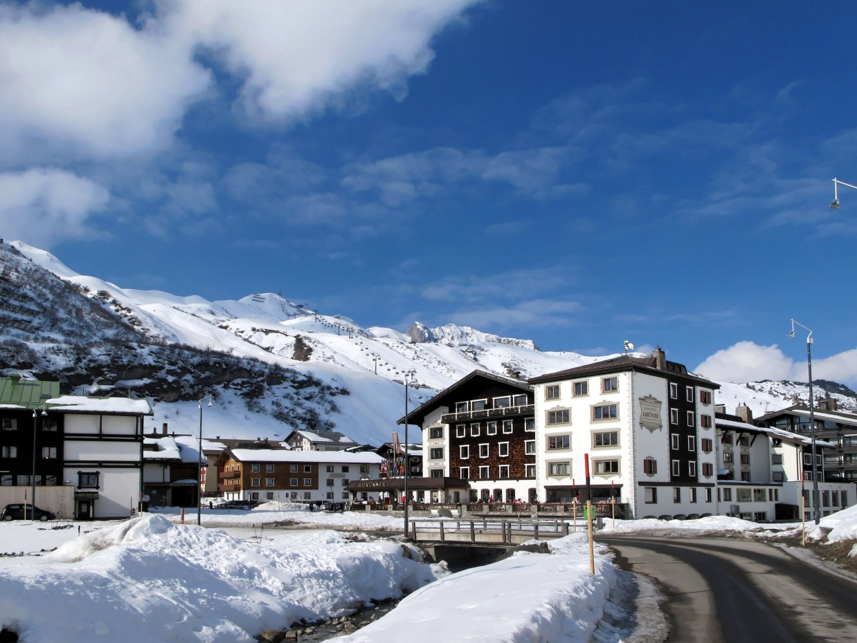 Village "Zürs"